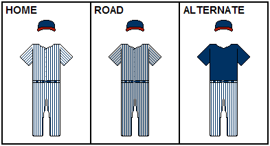 Uniforms of the Nashville Xpress Minor League Baseball team of the Southern League (1993 to 1994)